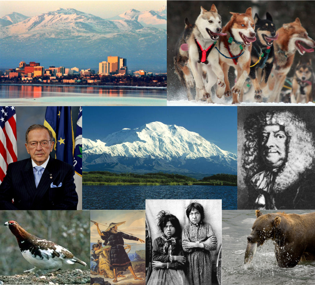 Collage of Alaska